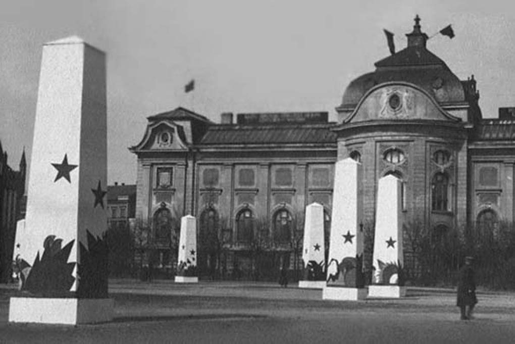 Holiday decorations to May 1. 1919. Riga.